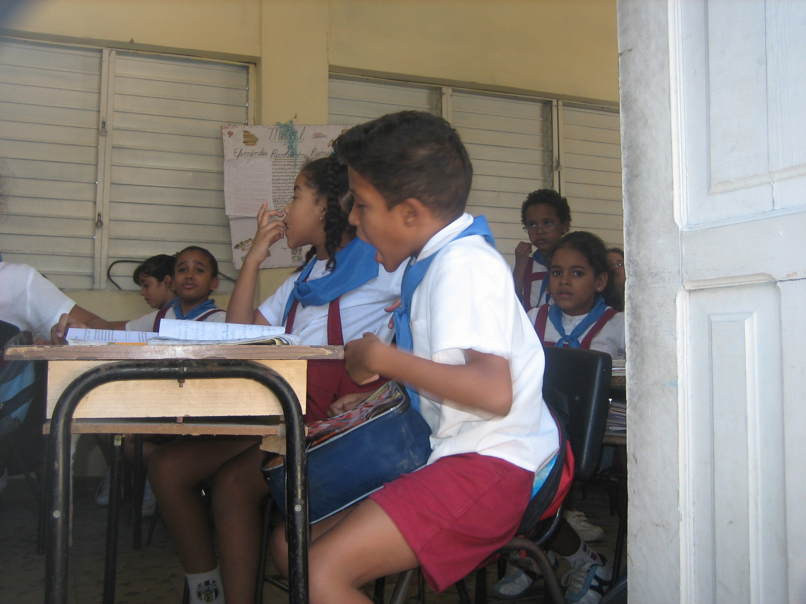 Young cuban pioneers in school